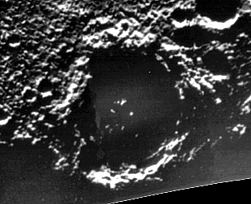 The crater Chao Meng-Fu on the south pole of the planet Mercury.